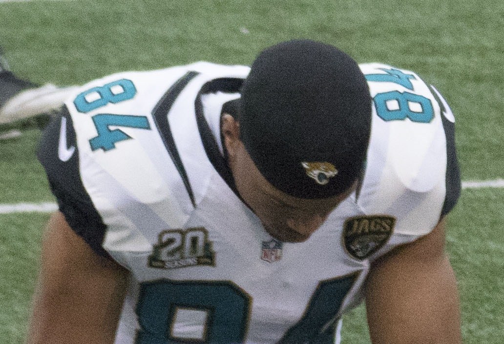 Jaguars at Ravens 12/14/14